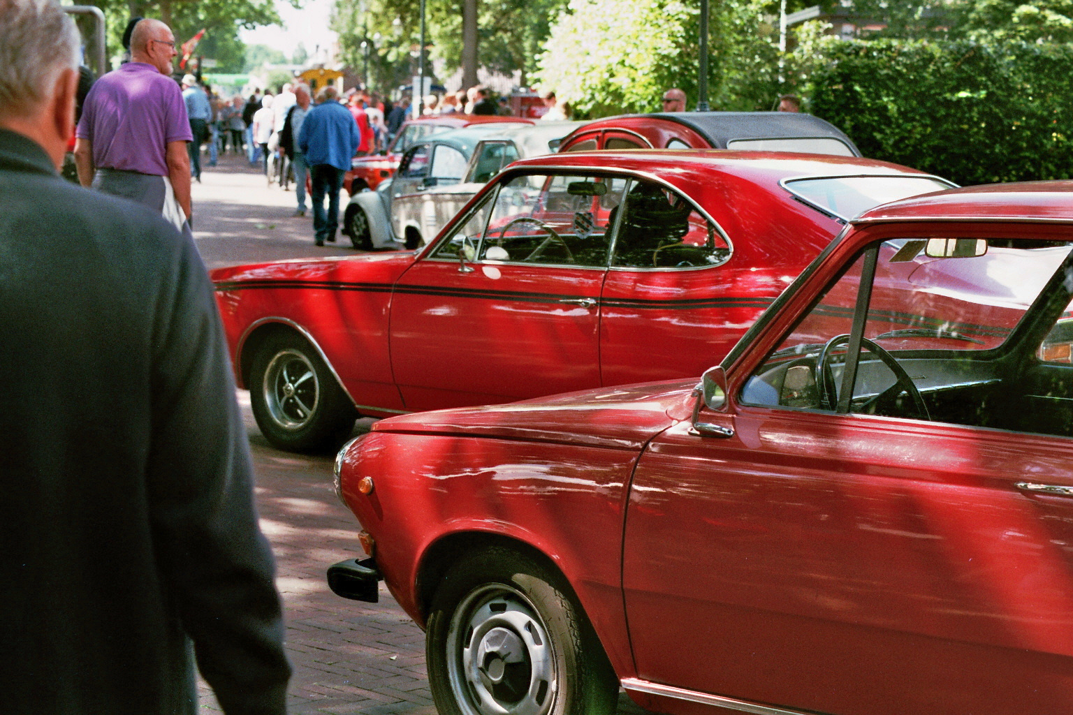 Daf 46, Opel Rekord Coupé, 2CV, VW Käfer, Daf 66 Marathon Camera: Canon Eos 3000 Film: Fujifilm Superia X-tra 400 ISO Lens: Tamron AF70-300mm